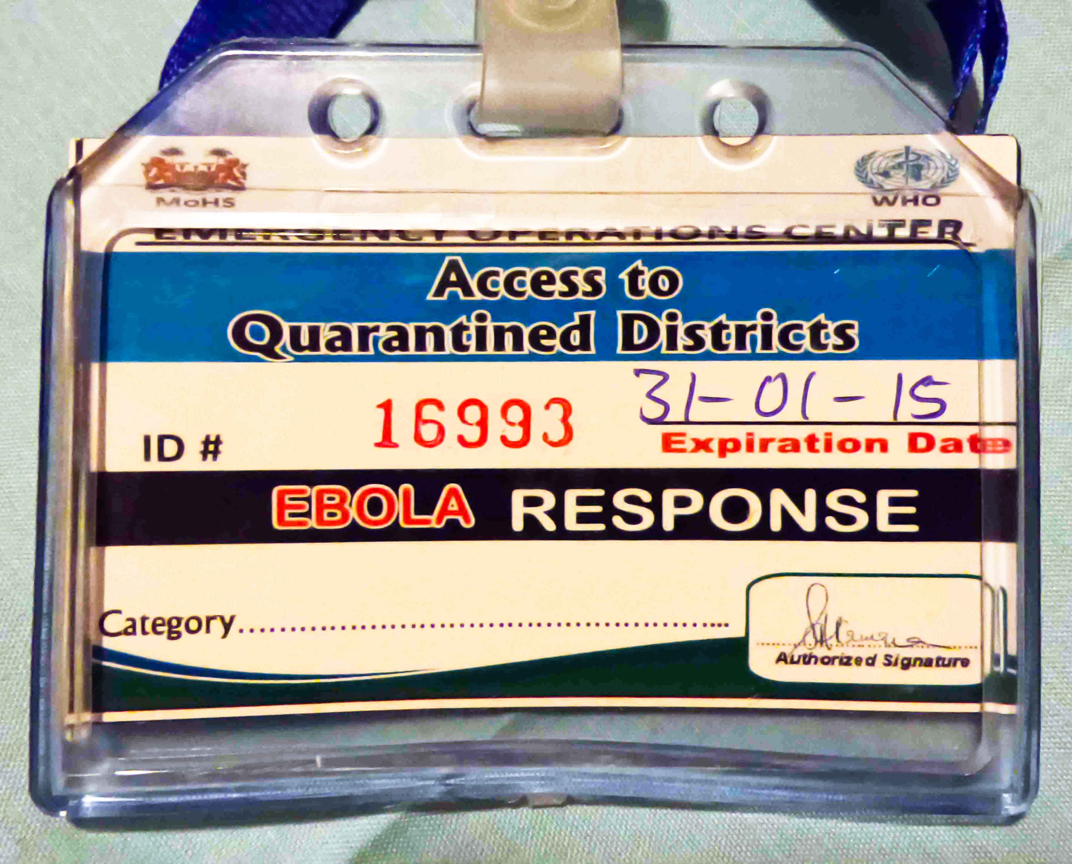 official pass of people working at NGOs to access areas that are under quarantine because of the ebola outbreak in Sierra Leone